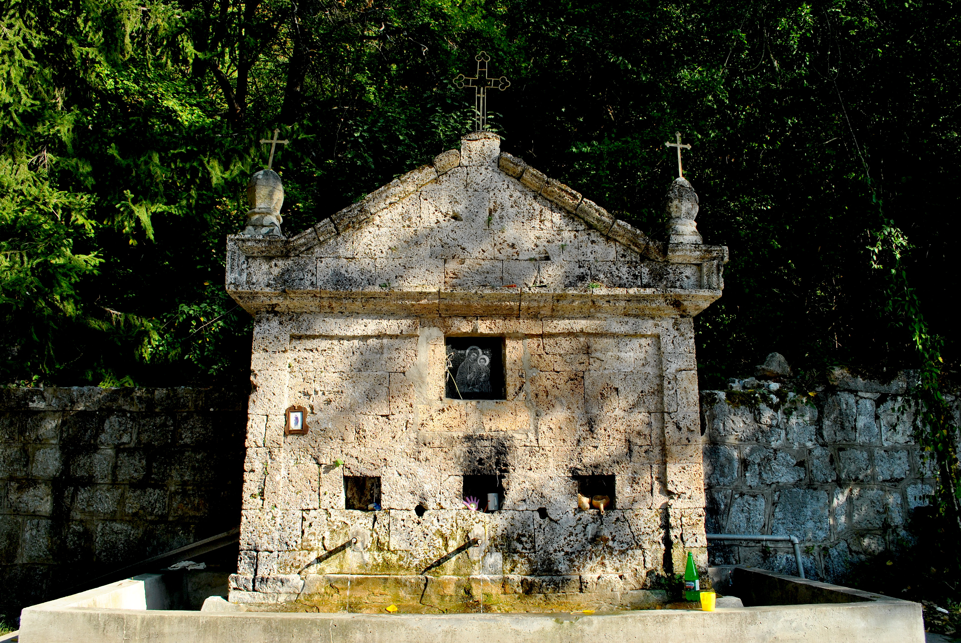 СК 664